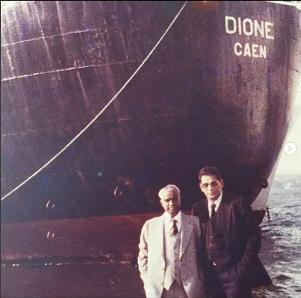 Shri R. Sivaswamy